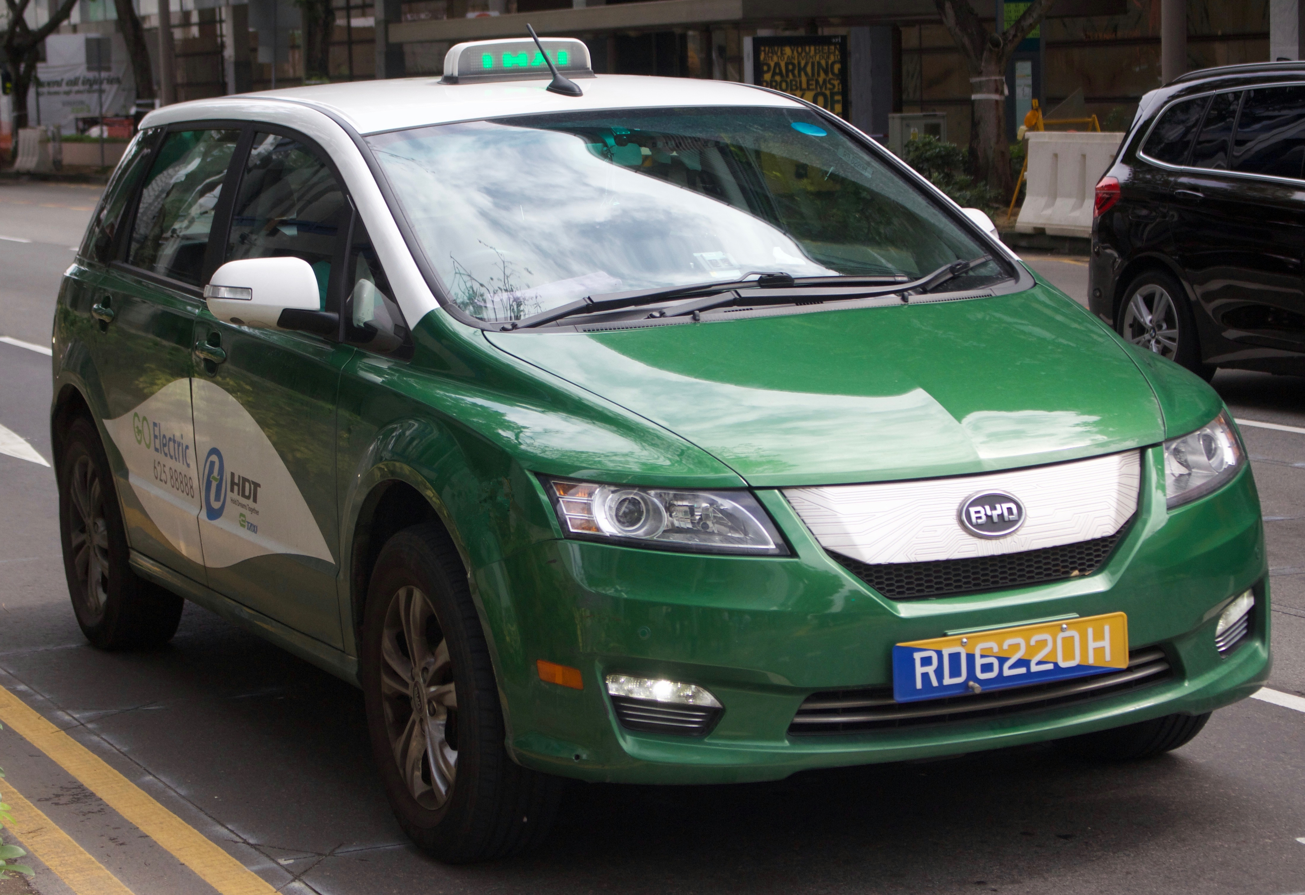 BYD e6 electric taxicab in Singapore.